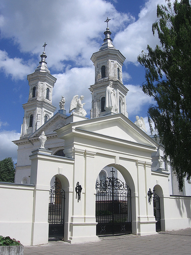 The Church in Kalvarija. Image taken in Kalvarija, southern Lithuania.